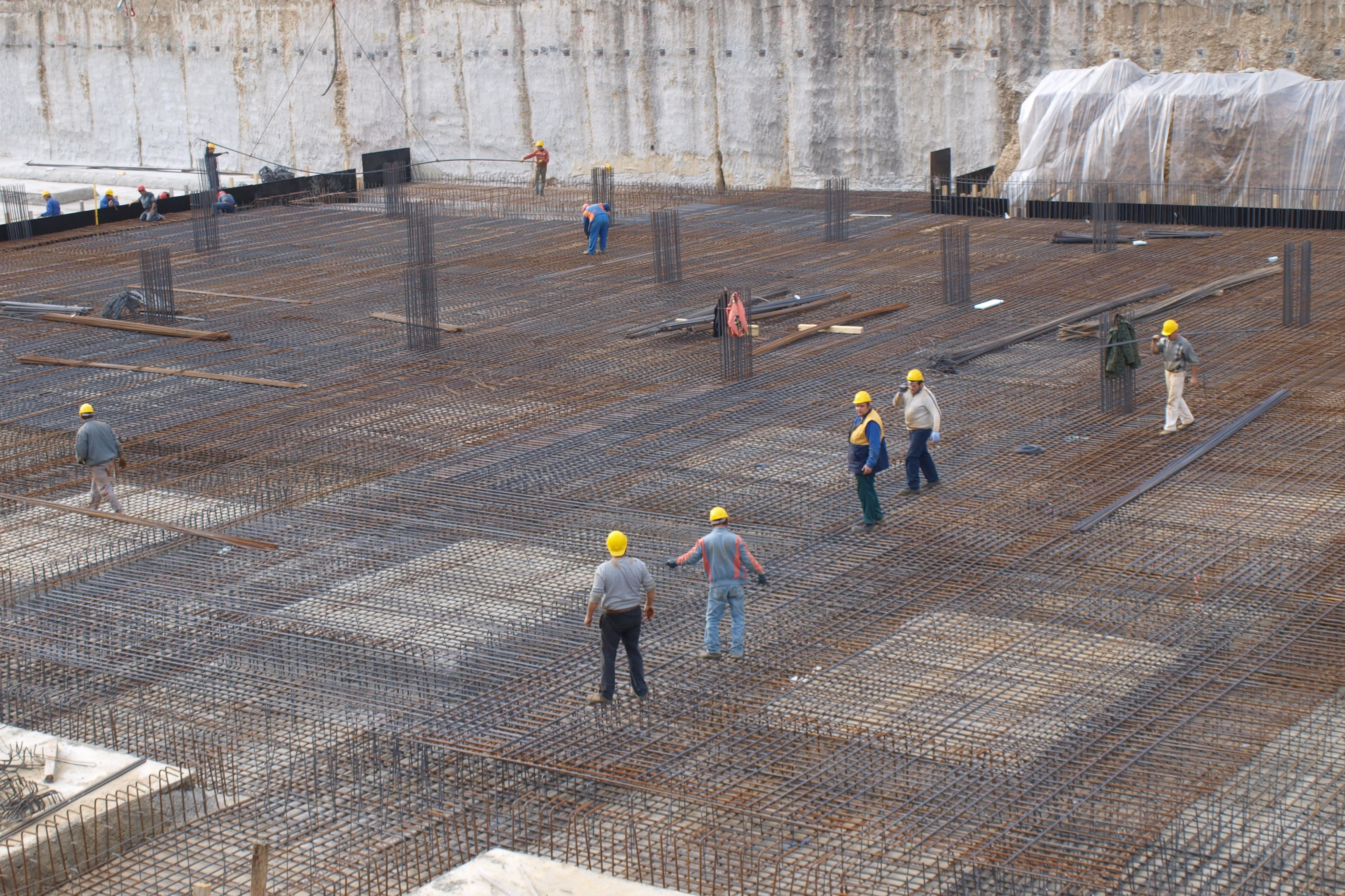 Sofia Metro under construction - Tsarigradsko Shose Blvd. at 11 Nov 2010.